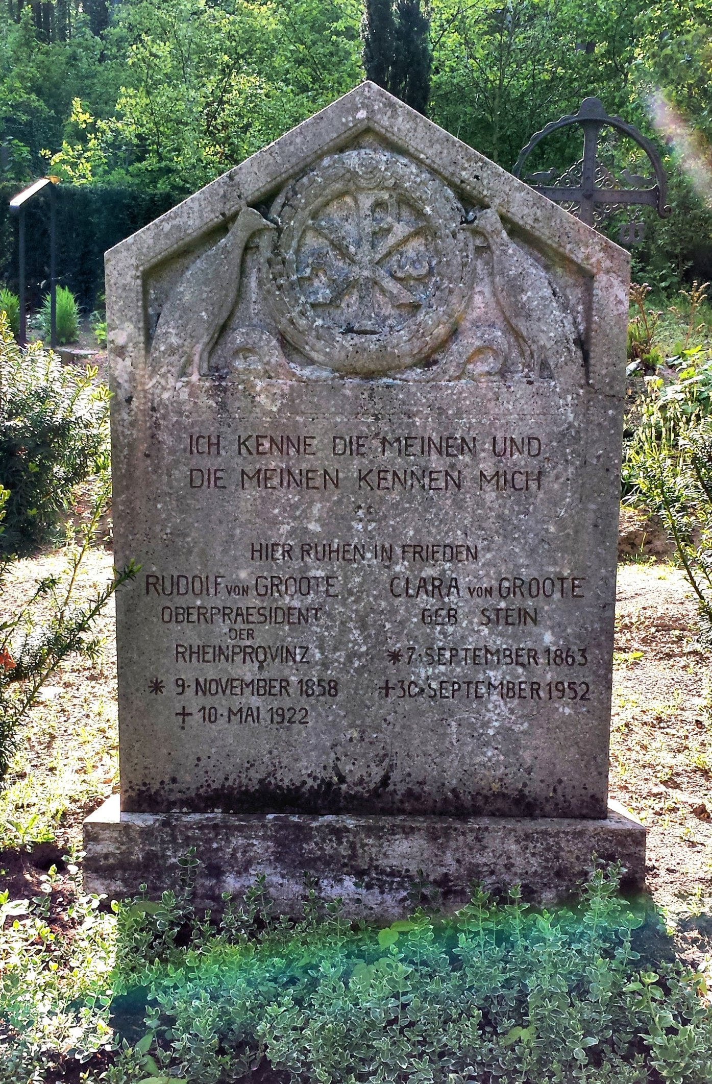 Gravestone Rudolf and Clara von Groote in Maria Laach